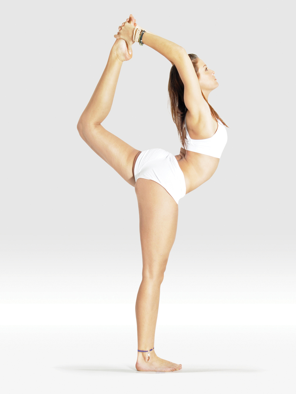 Mr-yoga-lord of dance - both arms